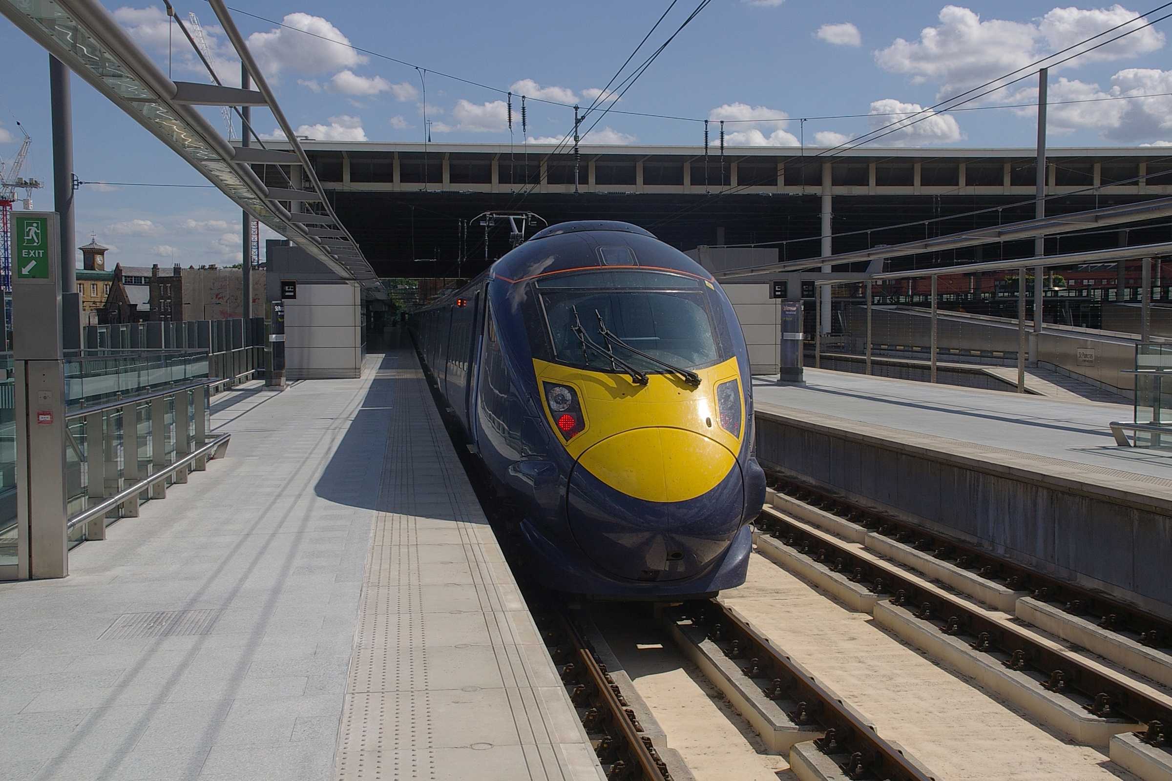 Southeastern "Javelin" unit 395017 at London St Pancras railway station.